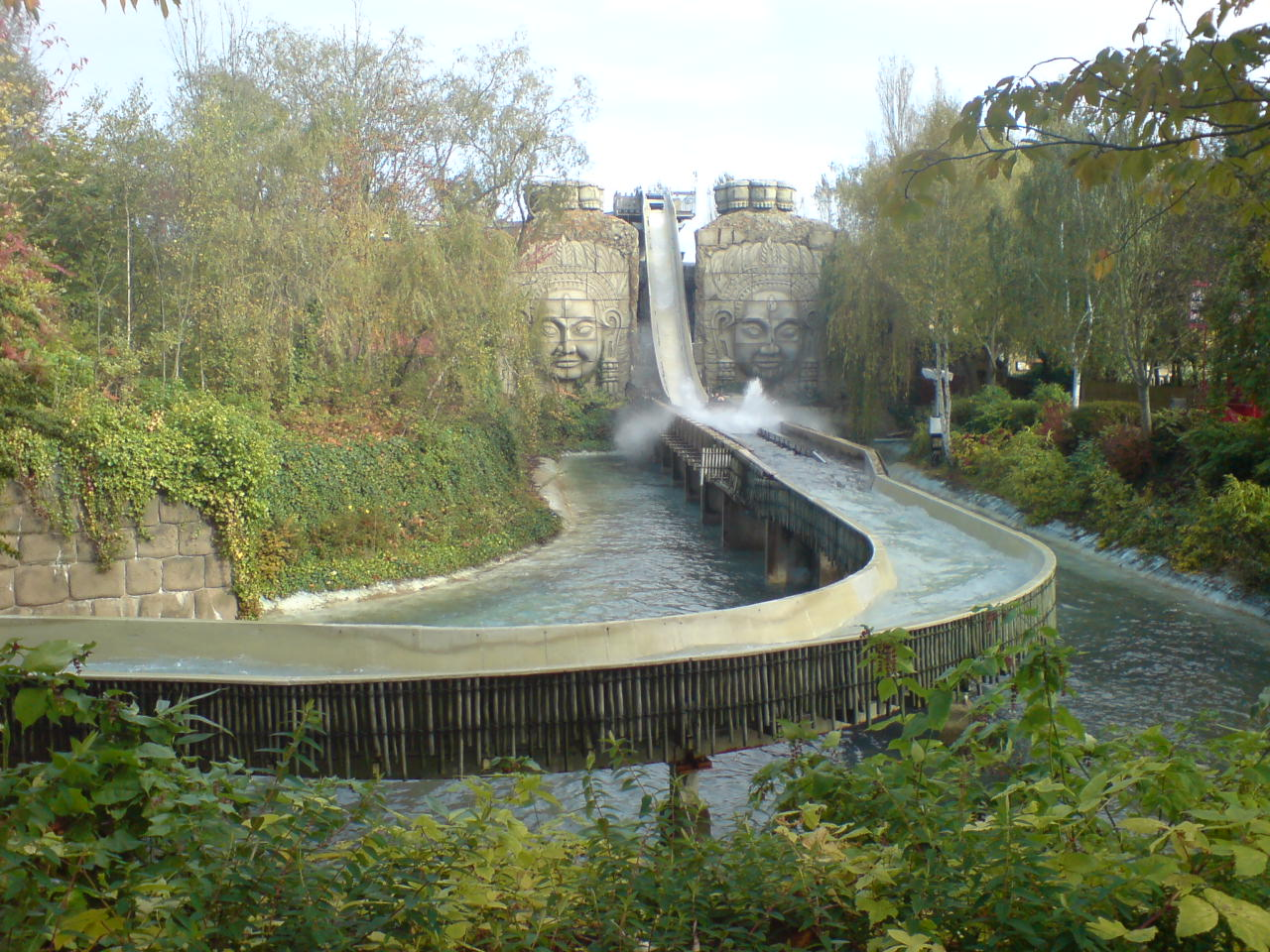 photo depicting ride